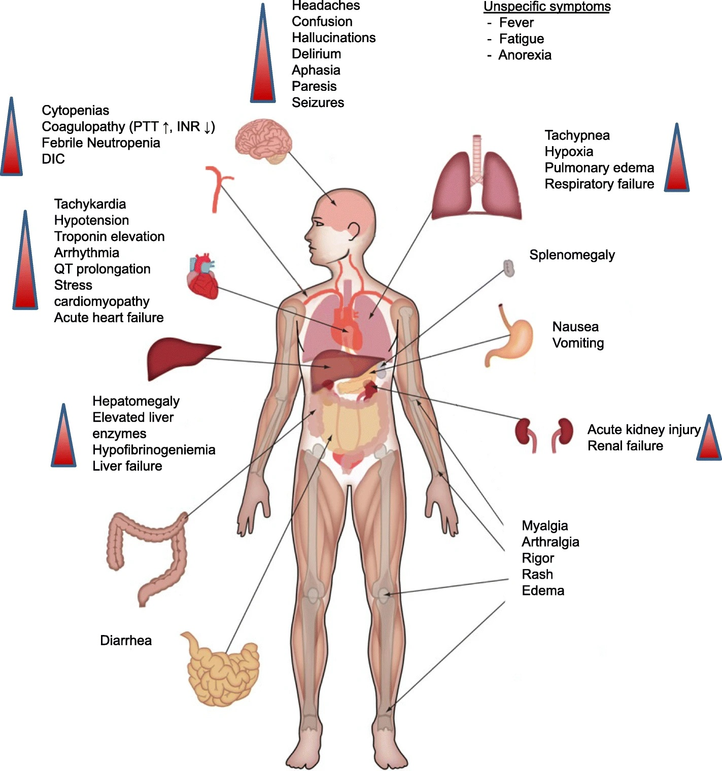 cytokine release syndrome